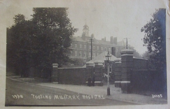 Old postcard of Tooting Military Hospital